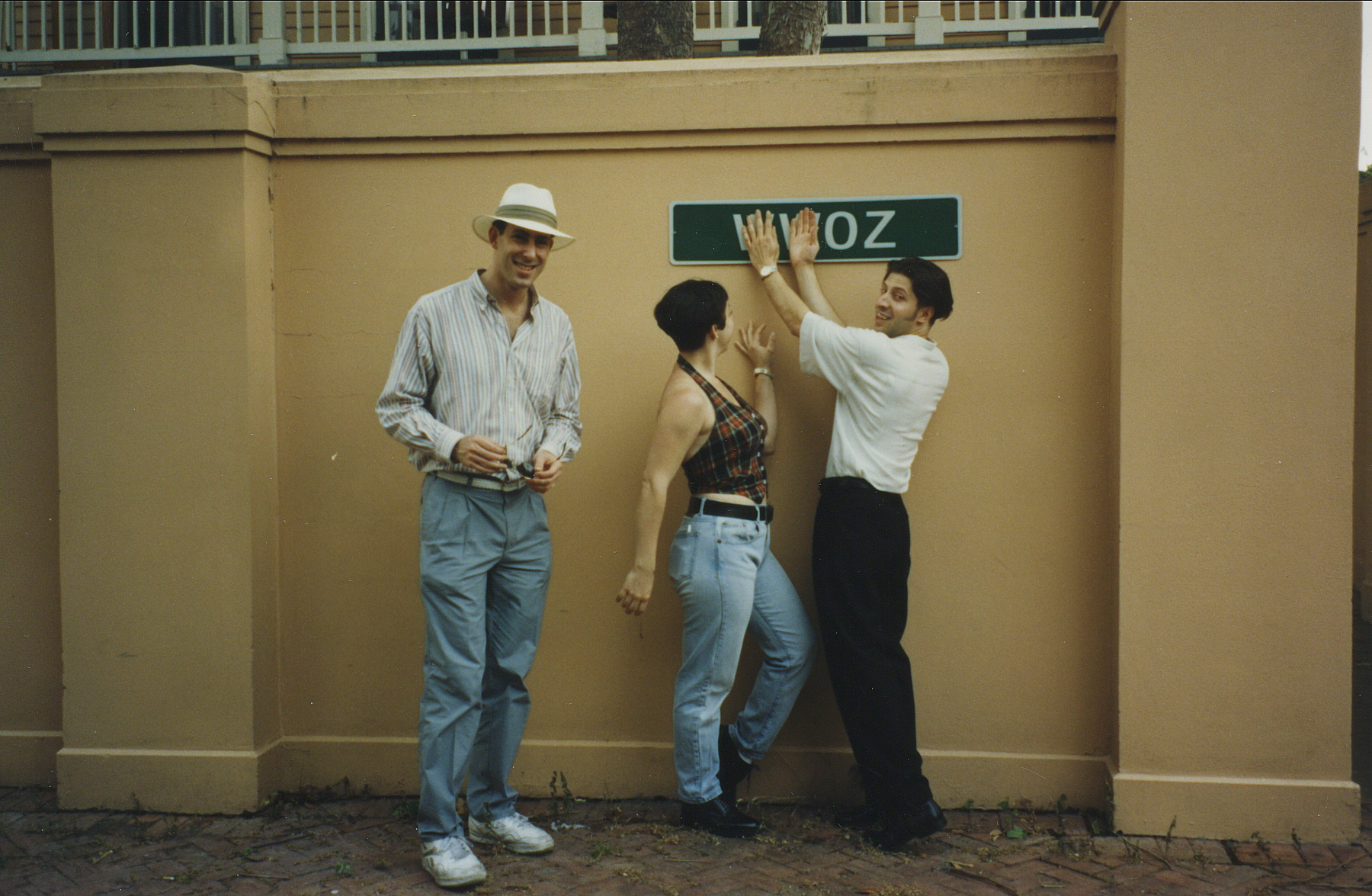 New Orleans 1995: Members of "The Flying Neutrinos", Dan Levinson, Ingrid Lucia, and Dave Berger, clown outside the Armstrong Park studios of radio WWOZ.